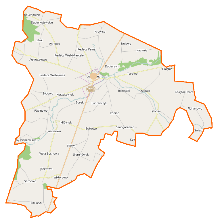 Map of Gmina Lubraniec, Poland This map of Lubraniec (gmina) was created from OpenStreetMap project data, collected by the community. This map may be incomplete, and may contain errors. Don't rely solely on it for navigation. Border coordinates52.598318.7204←↕→18.983052.4361